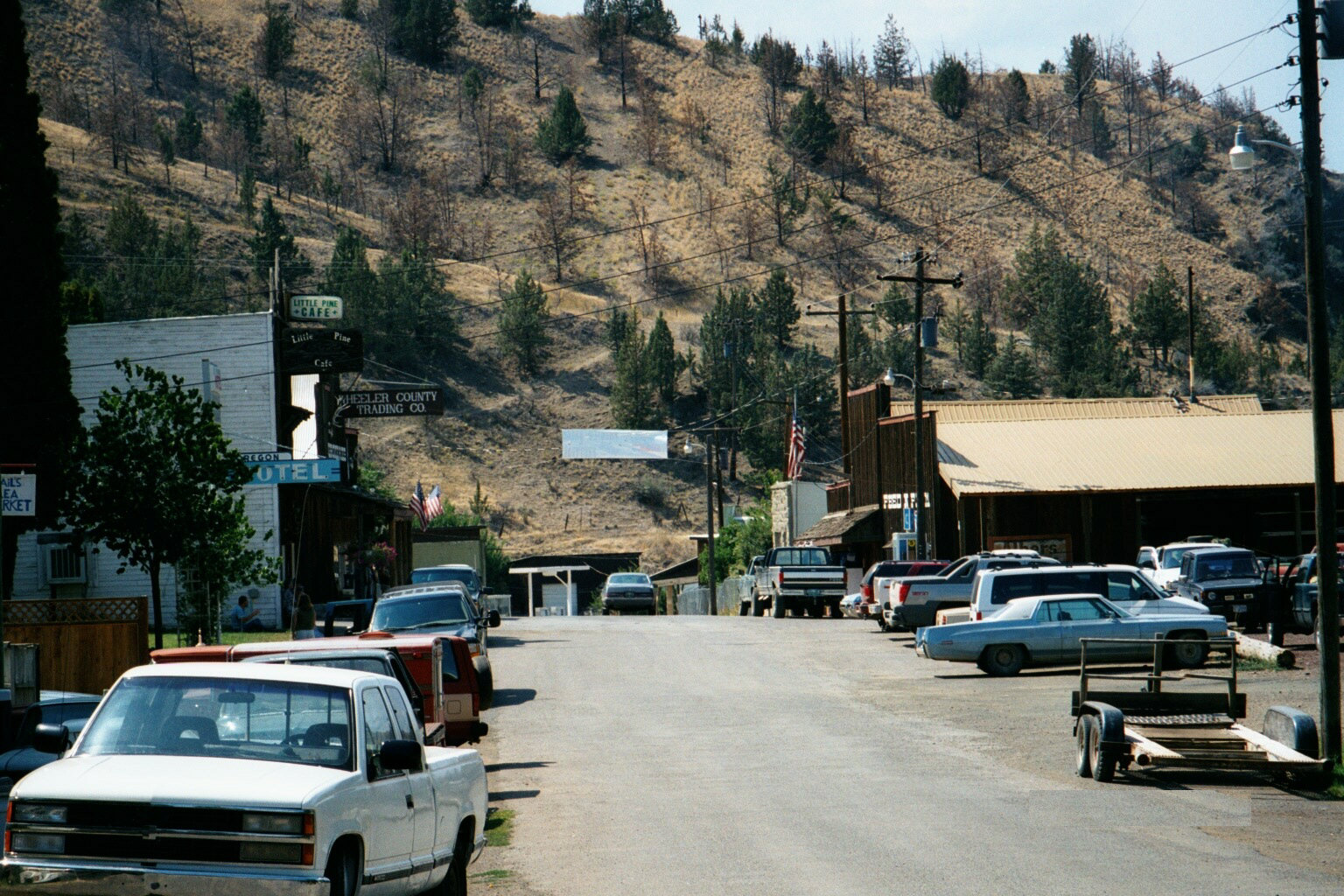 Main street in Mitchell, OR.